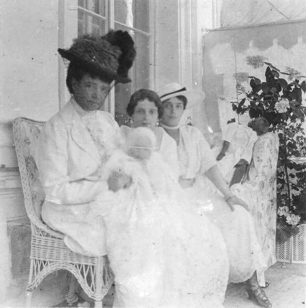 Dowager empress Maria Feodorovna (Dagmar of Denmark) with little Irina Yusupova, princess Irina Yusupova and grand duchess Xenia Alexandrovna